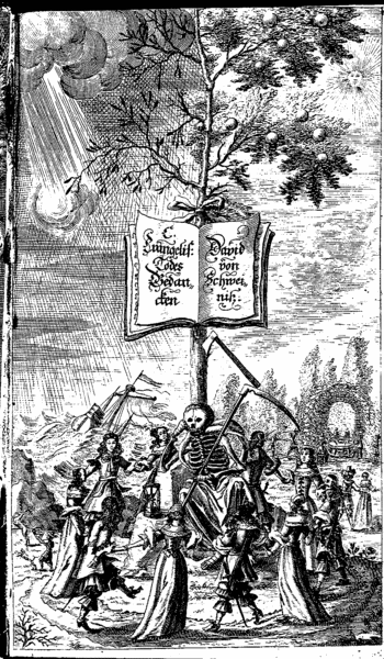 Frontispiece of David von Schweinitz: Hundert Todes-Gedancken/ Das ist: Vorbereitung Eines Christlichen Lebens zum Seligen Sterben/ Aus den Sonn- und Festtäglichen Evangelien und Episteln/ Breslau: Fellgibel 1664